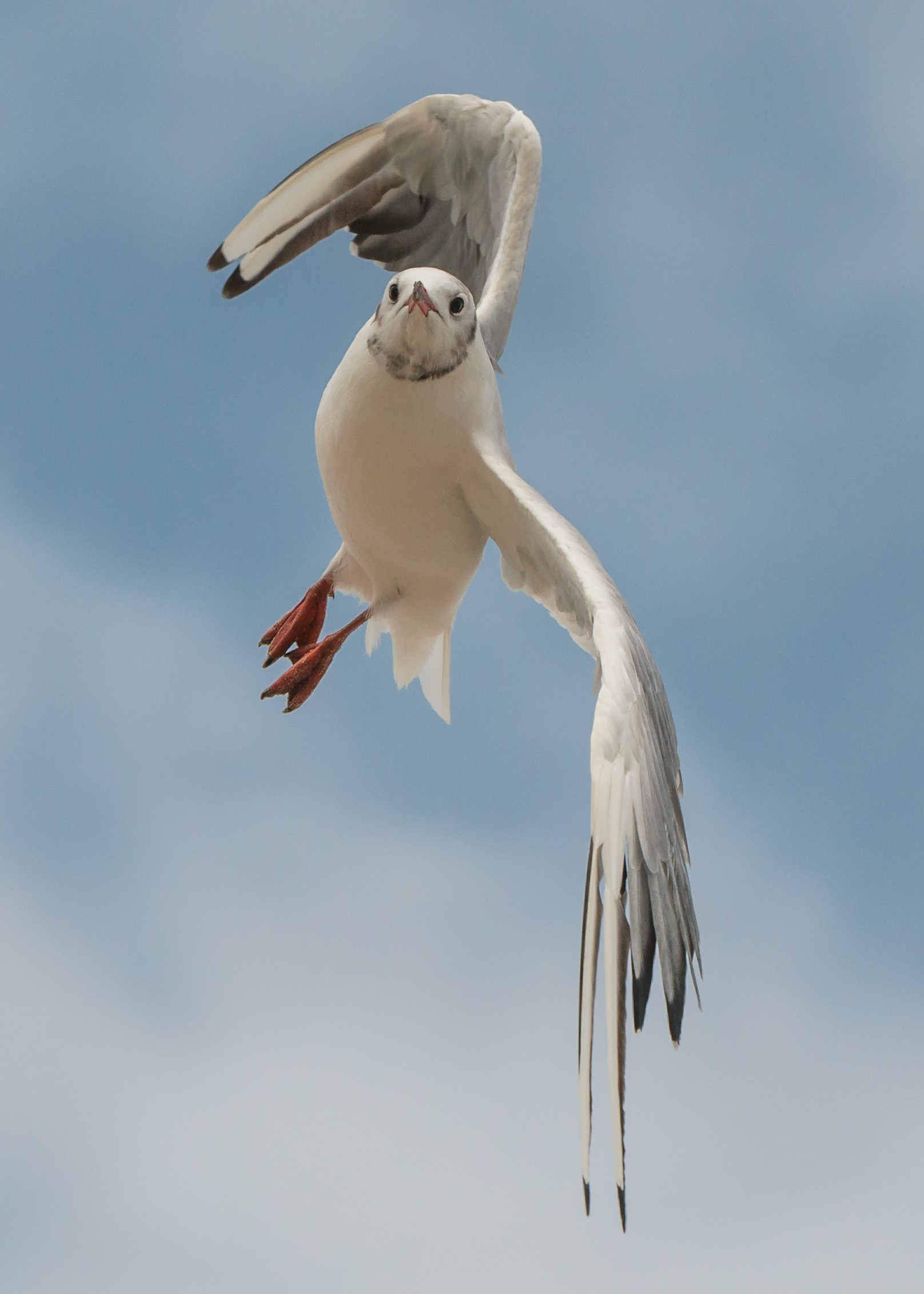 A black-headed gull (Chroicocephalus ridibundus) in flight near Großenbrode, Schleswig-Holstein. The bird is in a near-vertical position.